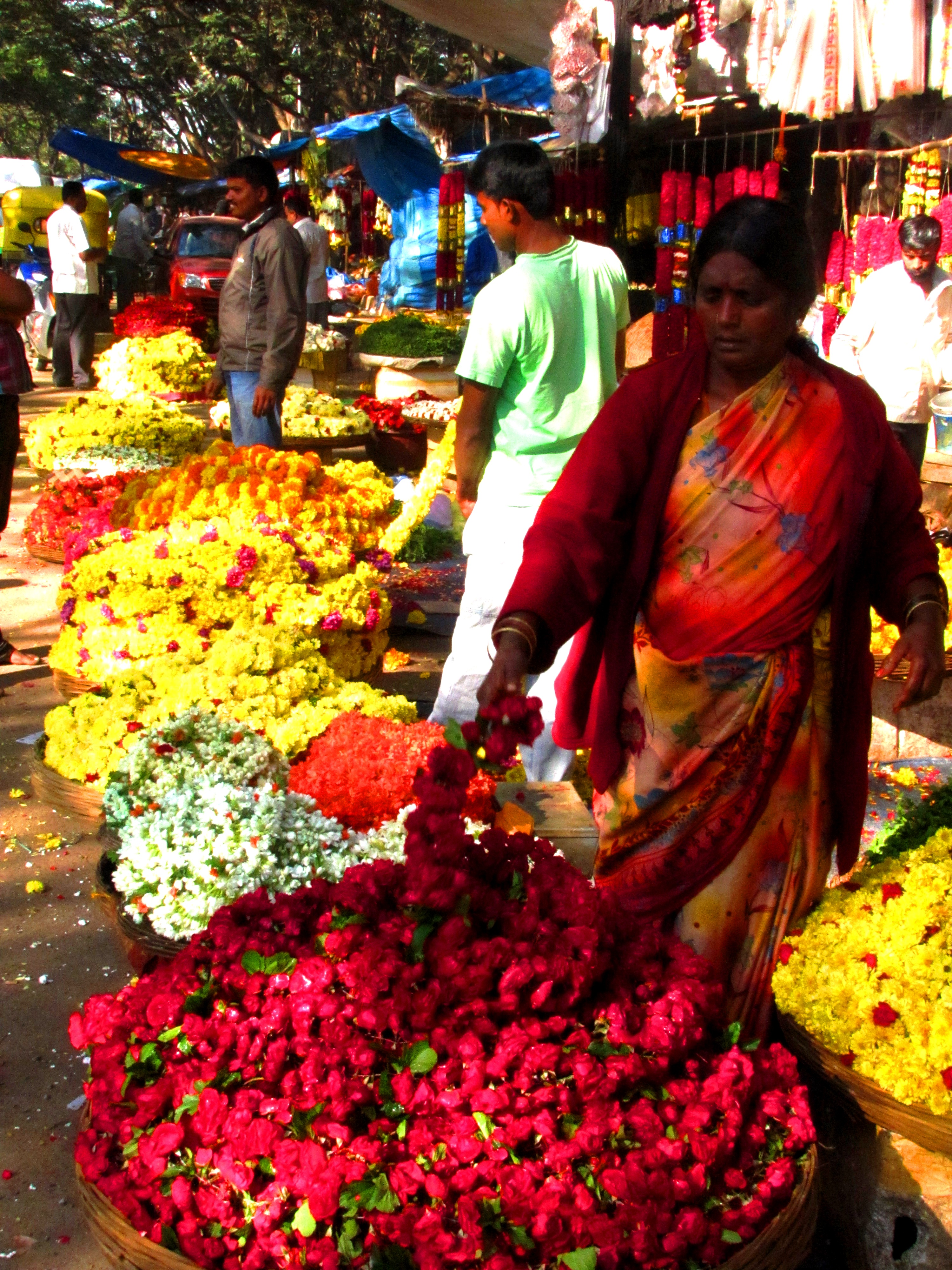 Flower selling at Madiwala Market, Bangalore